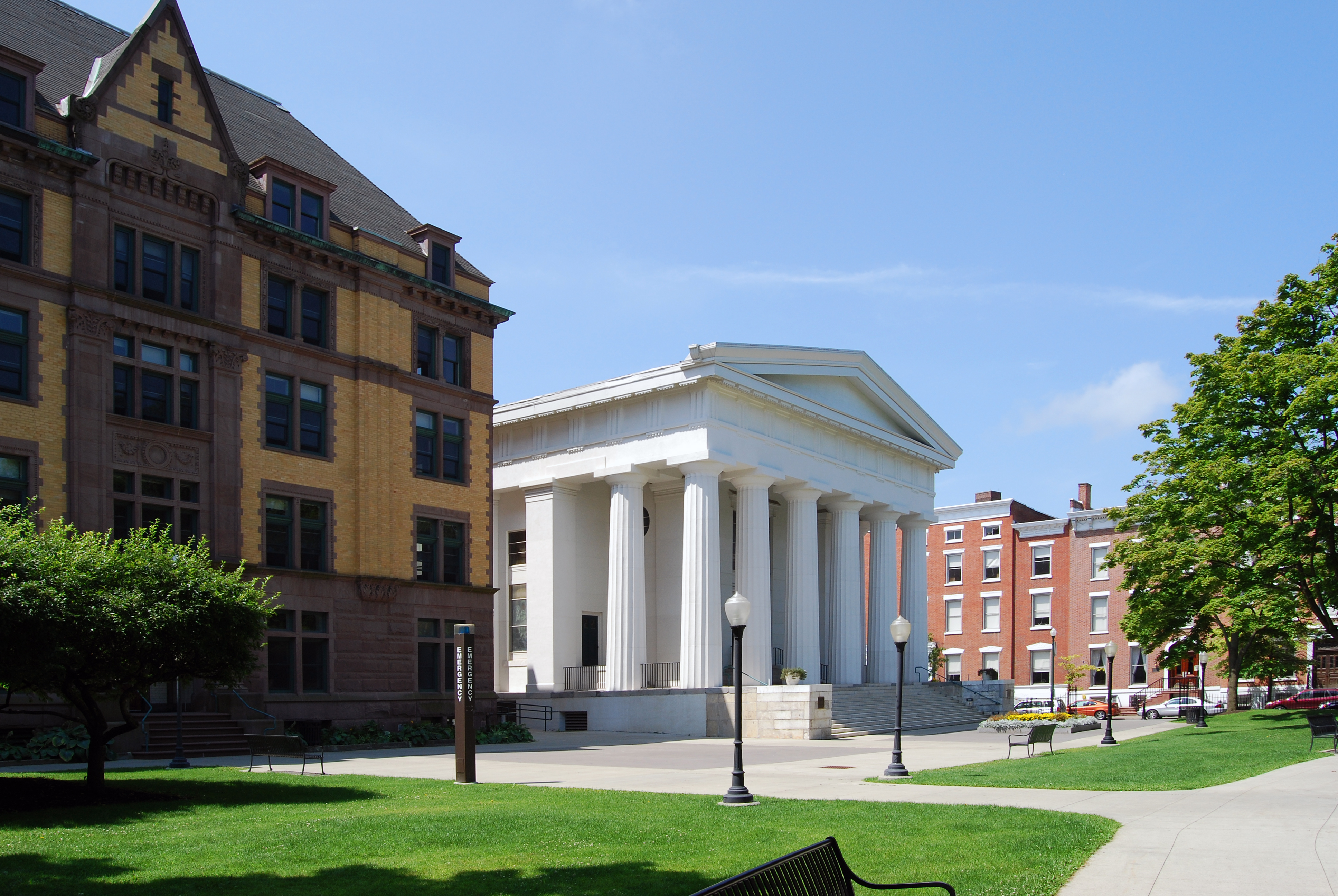 Russell Sage Hall and the Bush Memorial Center on the campus of Russell Sage College in Troy, New York, United States